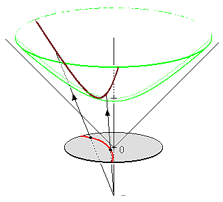 Projective relation of hyperboloid and Poincare models